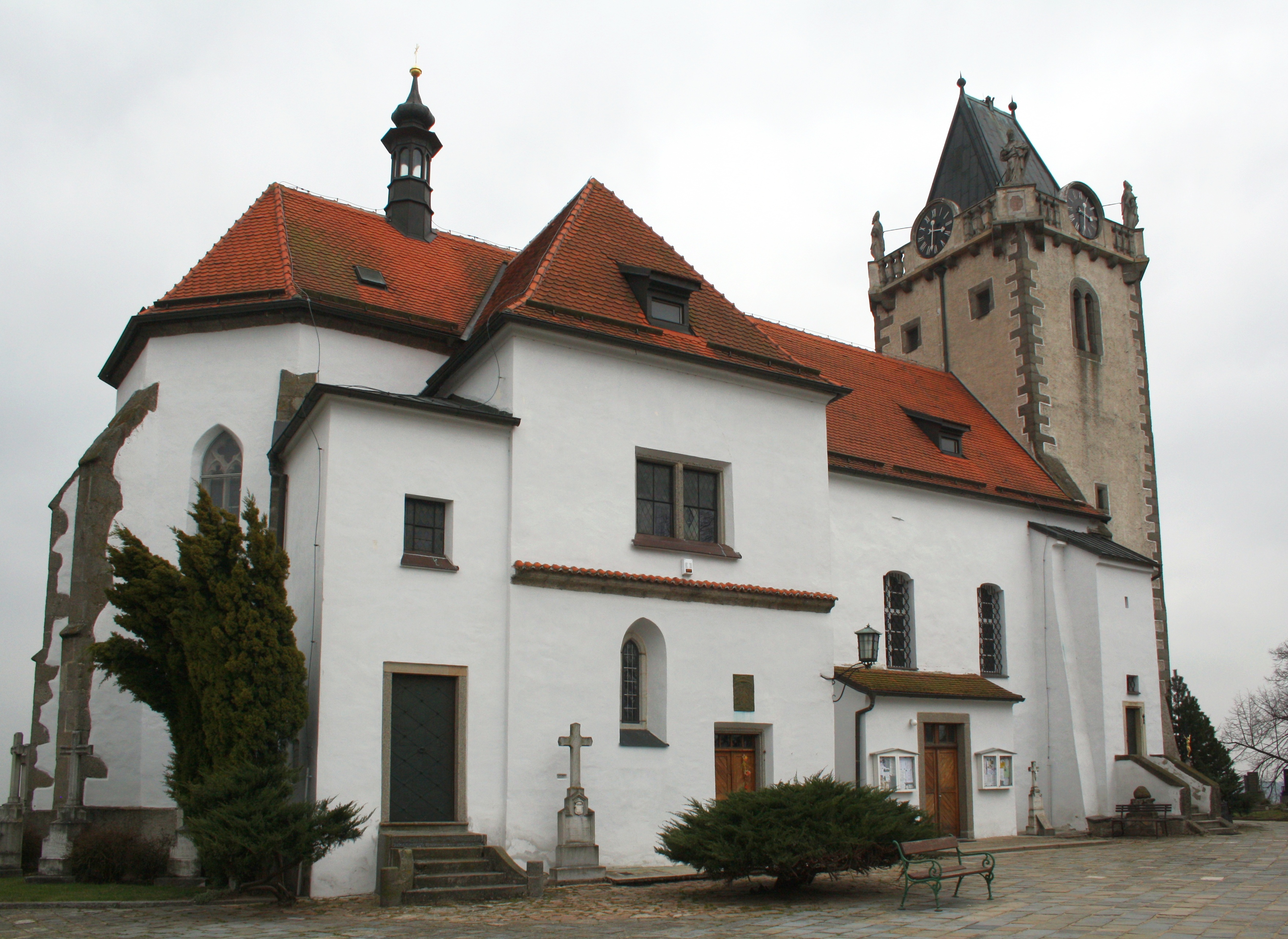 Overview of Church of the Assumption and Saint Gotthard in Budišov.